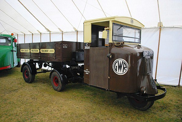 Scammell 3-wheeled tractor and trailer of the GWR at Gotherington on the Gloucestershire-Warwickshire Railway, 06/10.